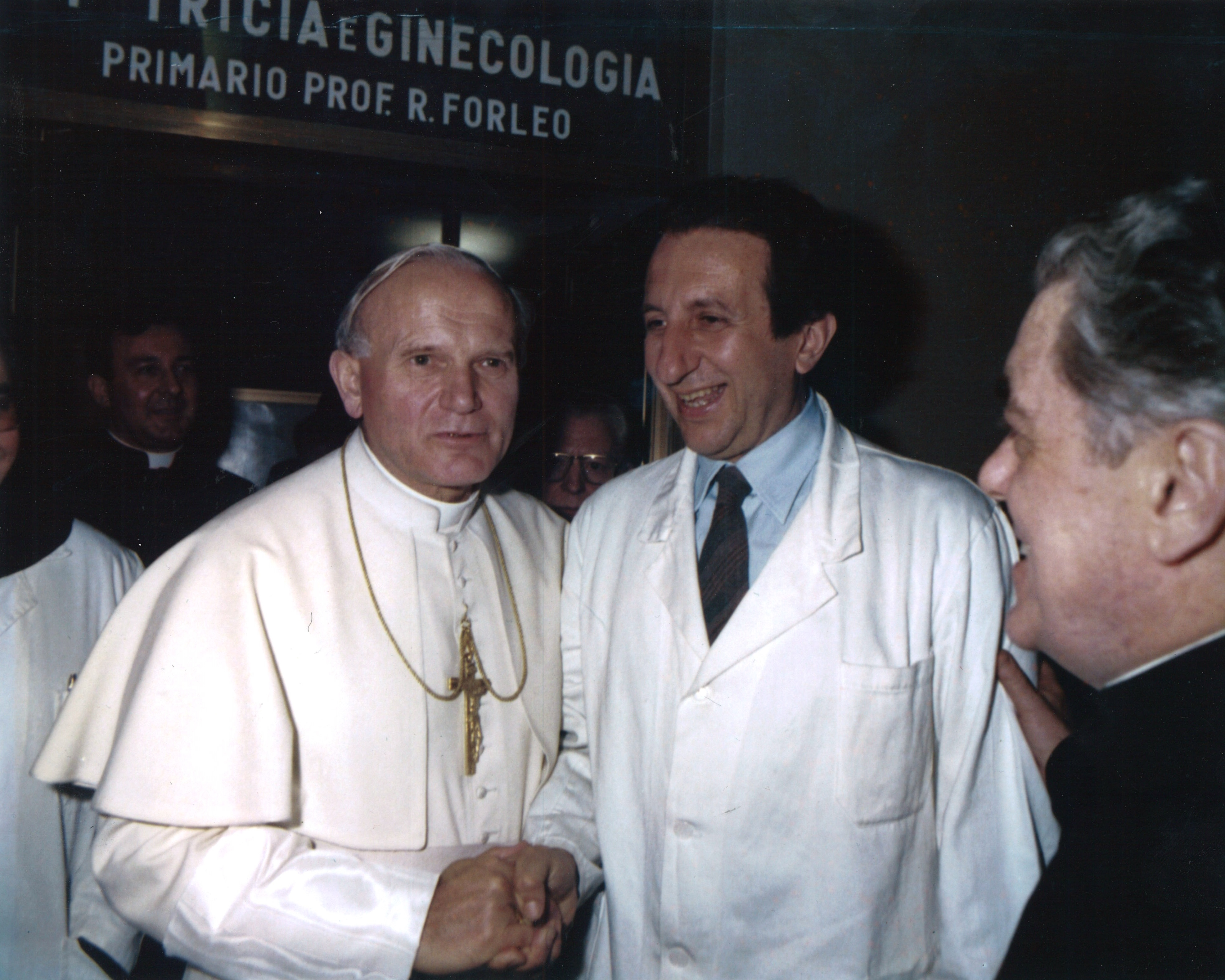 Pope John Paul II visiting the Obstetrics ward of Ospedale San Giovanni Calibita Fatebenefratelli, Rome, directed by Romano Forleo